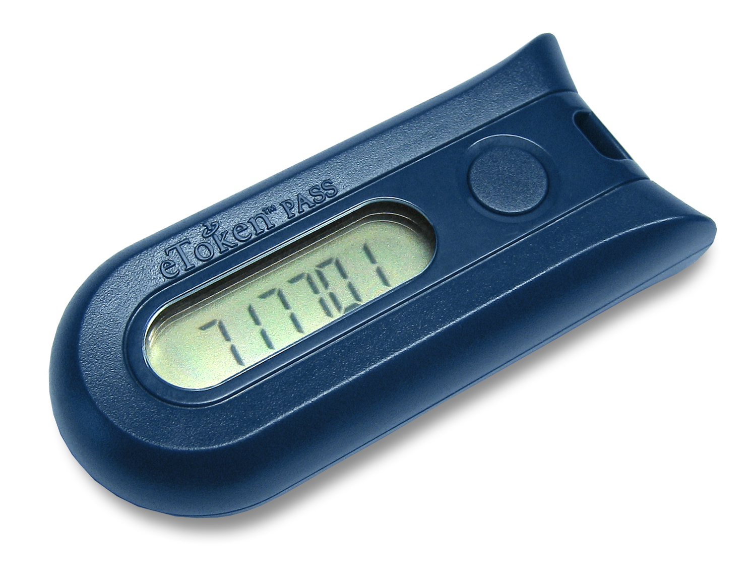 Unlike other eTokens, eToken PASS is merely a one-time password token. It cannot function as a smart card.